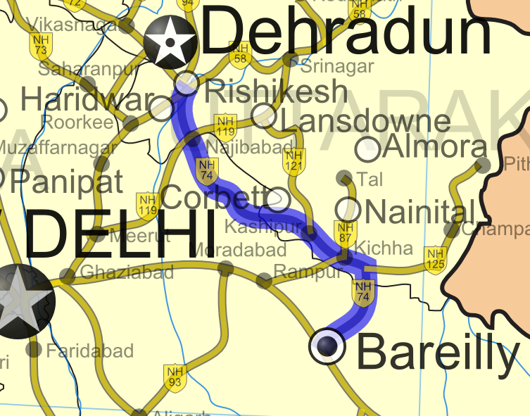 National Highway 74 in India